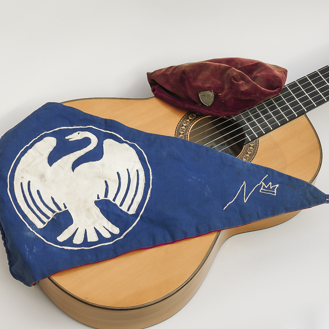 Germany: Bunting and cap of "Nerother Wandervogel Heidenheim" (1950's, Orden der Löwenritter) on a classical guitar.